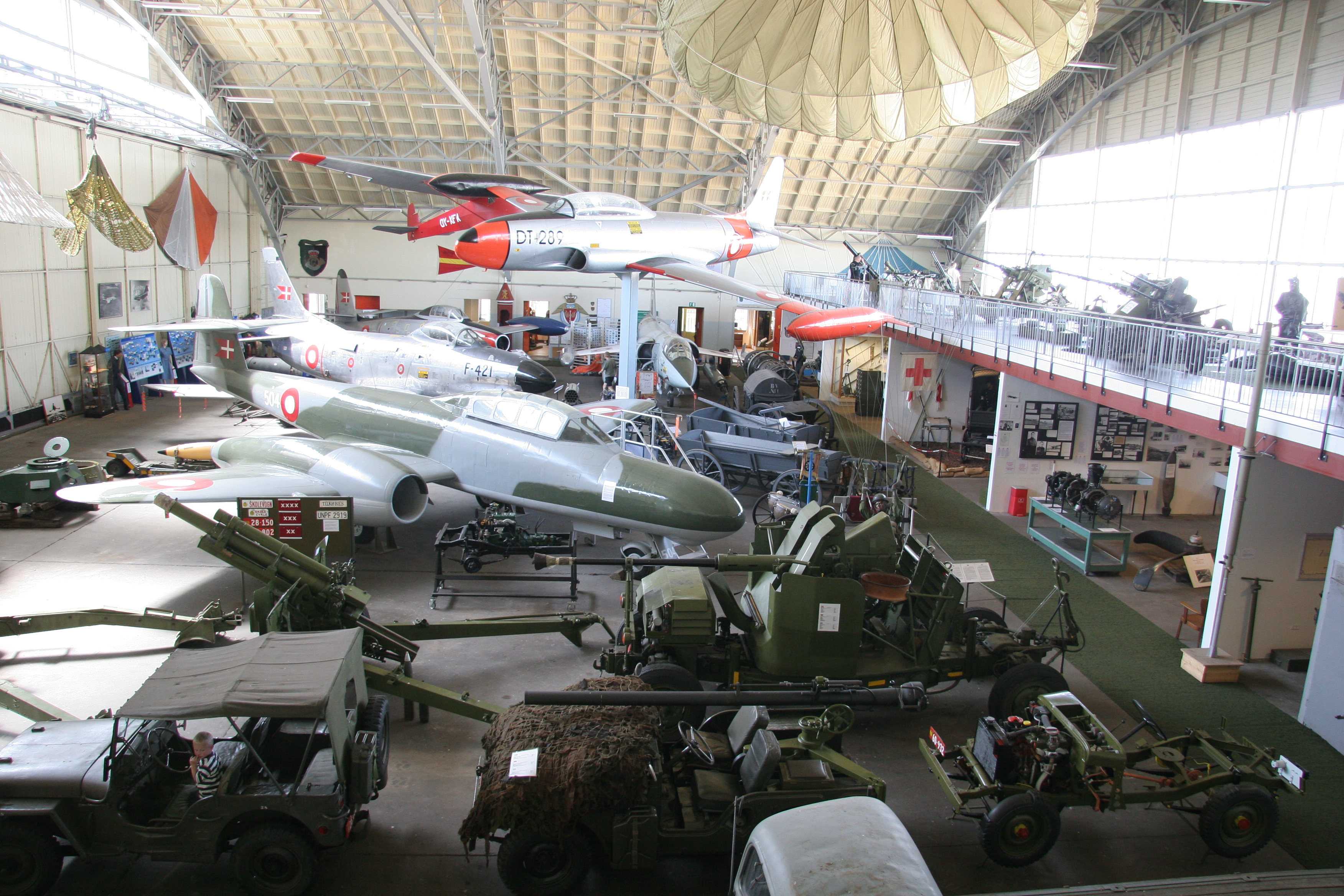 Photo from the water plane hangar at Aalborg Defence Museum